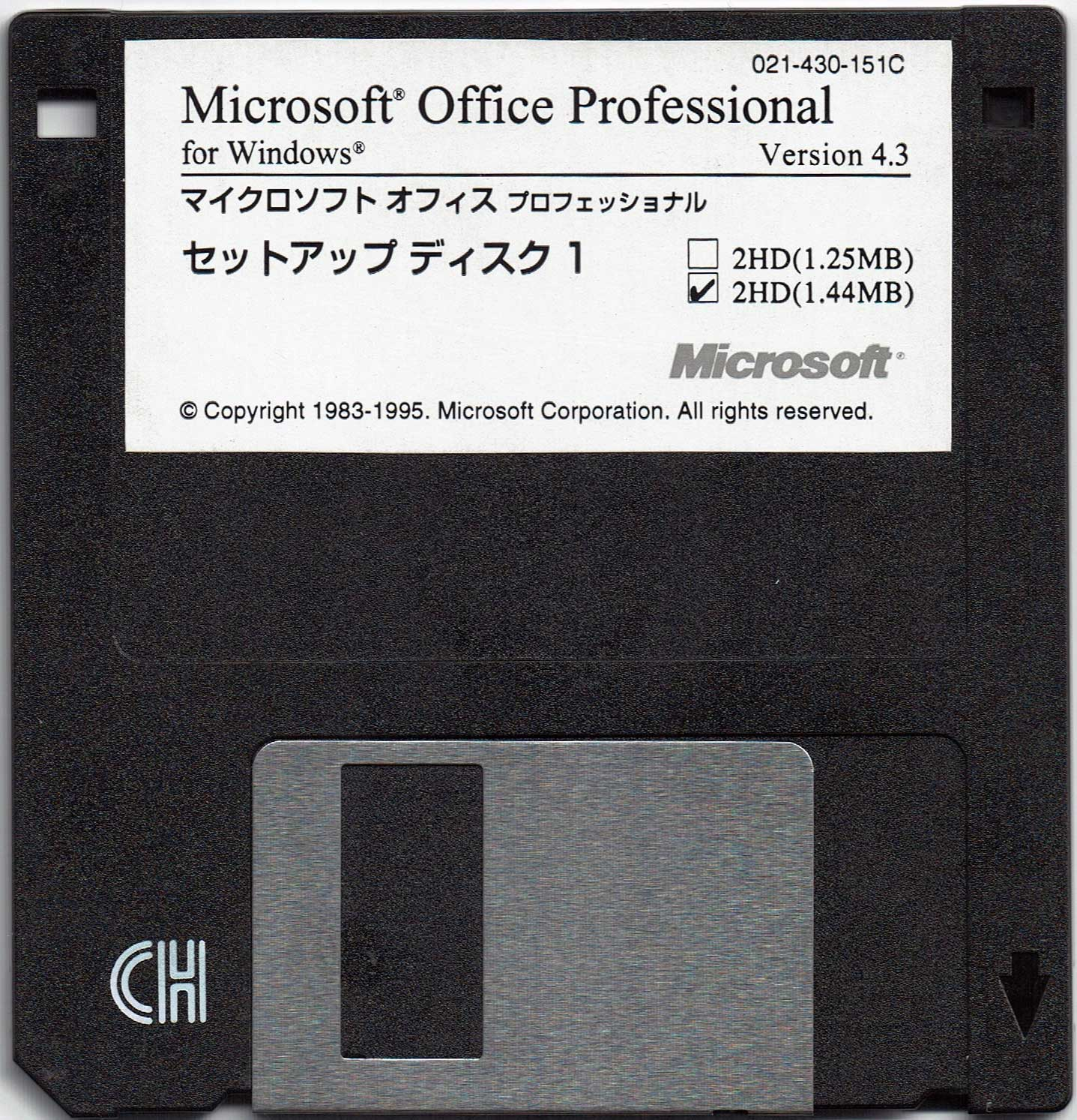 Japanese version of Microsoft Office 4.3 was provided with both 1232 KB and 1440 KB floppy disk formats.